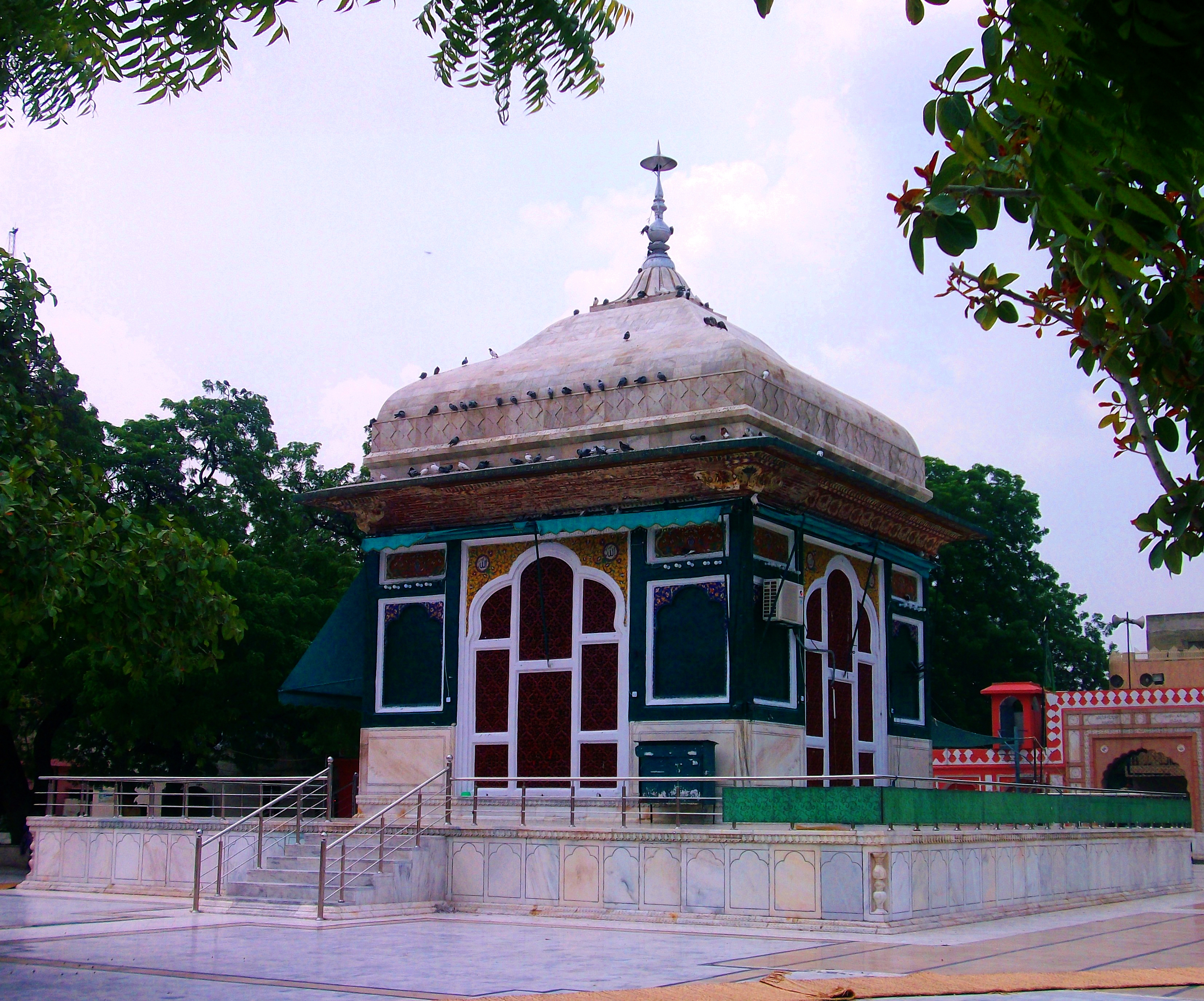 Shrine of Mian Mir, the Sufi Saint This is a photo of a monument in Pakistan identified as the PB-P-144